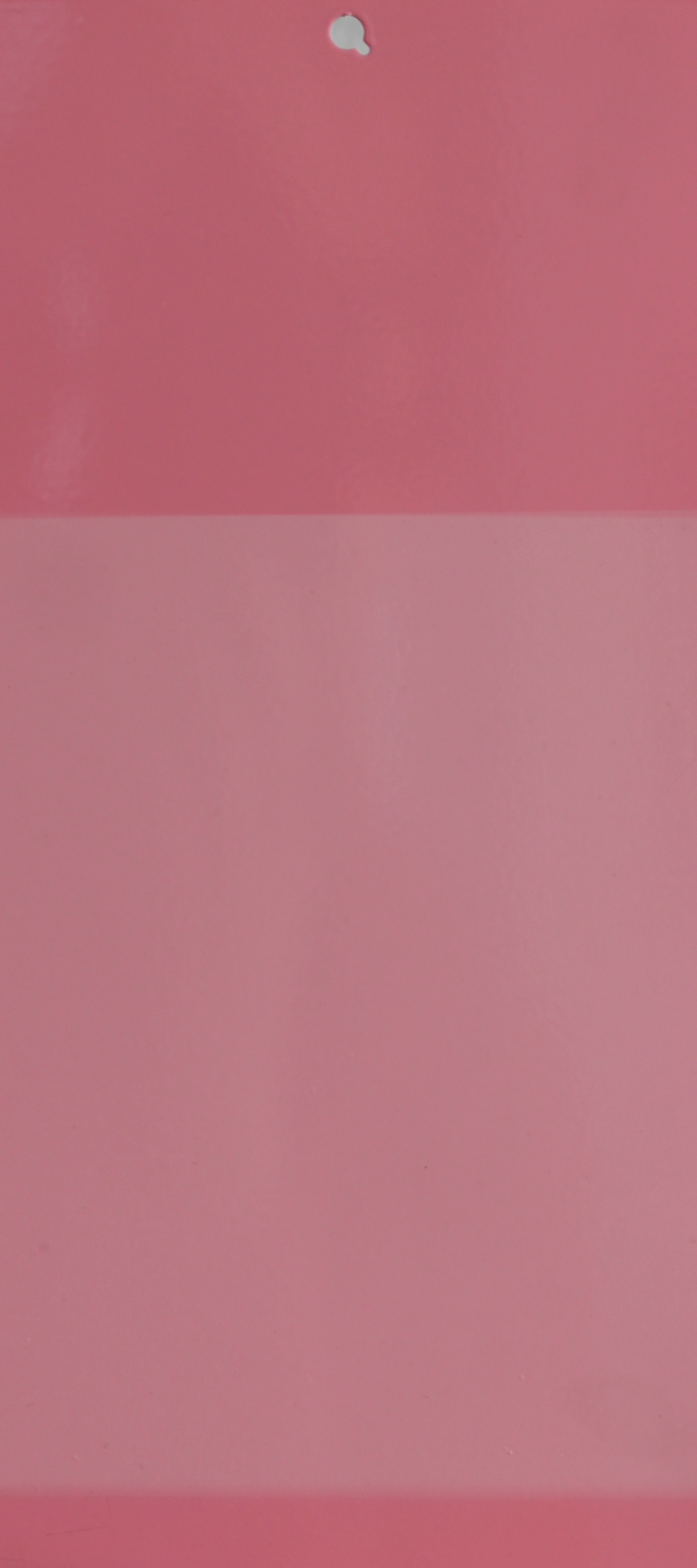 Fading as coating failure. On the upper and lower part of the panel the former colour is visible.